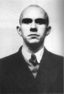 Postwar mugshot of Thomas Haller Cooper, Englishman who joined the British Free Corps and Waffen-SS